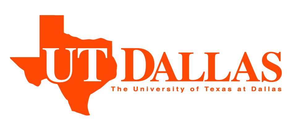 The UT Dallas Texas logo, inspired by the Texas Instruments logo most commonly used in long horizontal spaces. As of 2019 it is still in active use, though less popular after the adoption of the monogram logo in 2017.